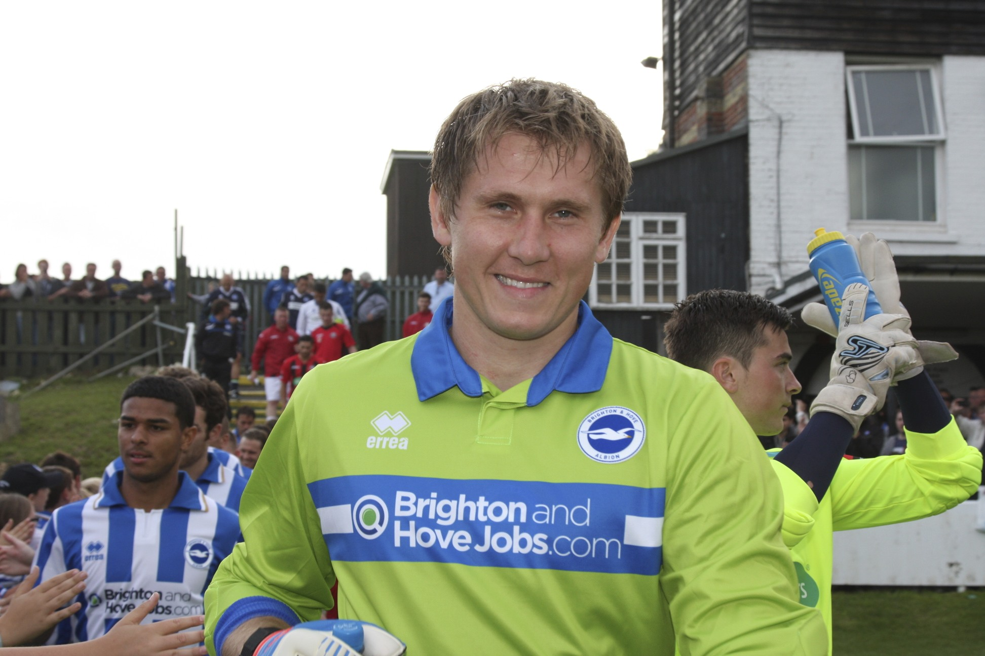 Tomasz Kuszczak playing for Brighton & Hove Albion